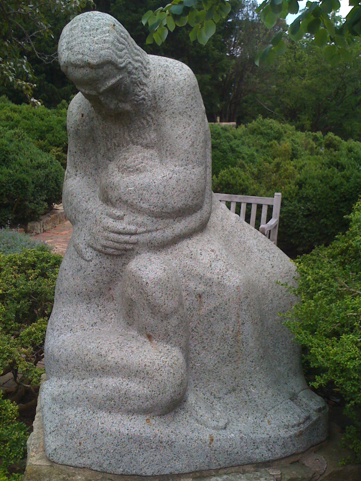 The Prodigal Son (1938) by Heinz Warneke, a German-born sculptor, located in the Bishop's Garden of the Washington National Cathedral, Washington DC. Was exhibited during the 1939 New York World Fair and in major American museums. Donated in 1961 to the National Cathedral by Coleman Jennings.